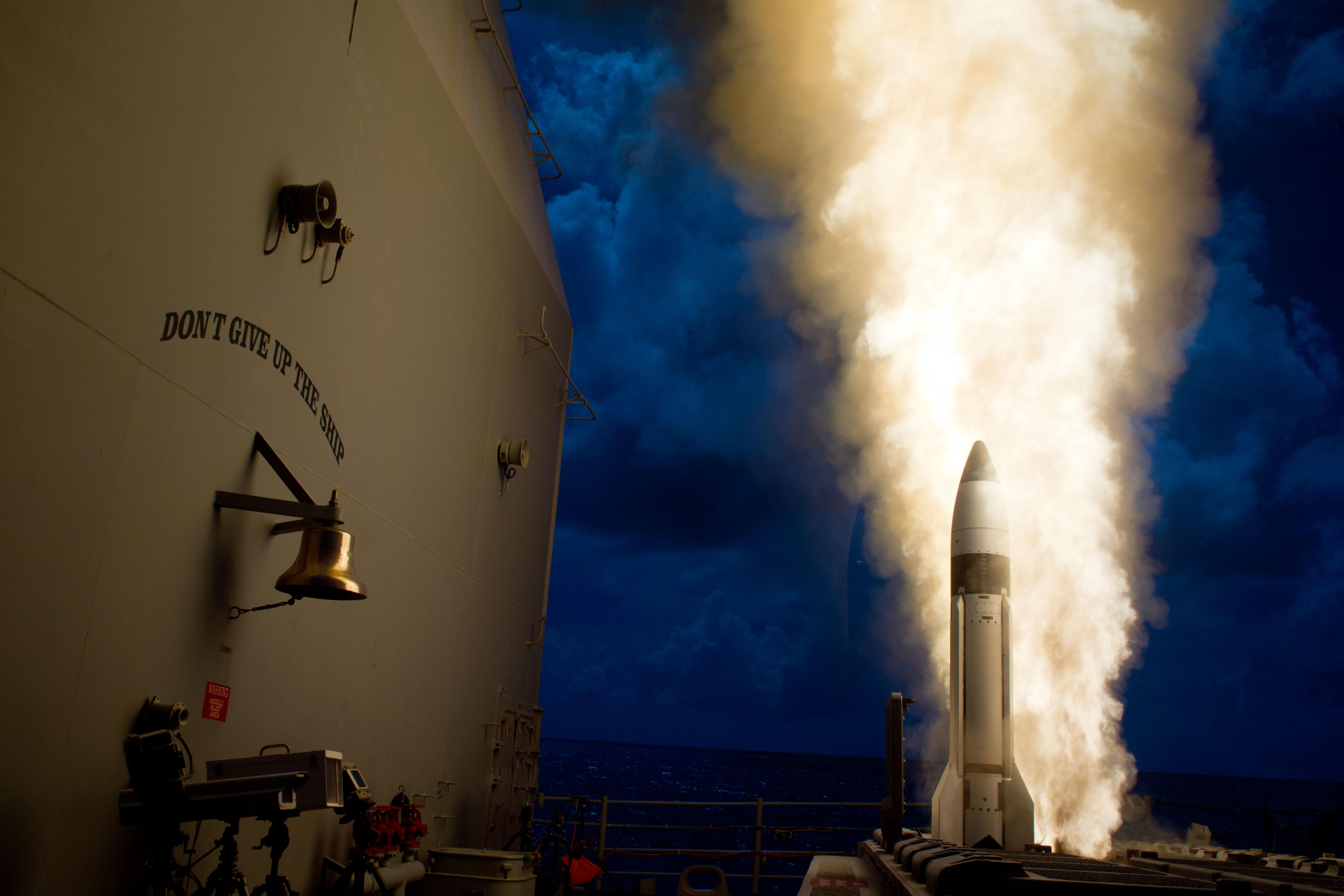 130918-D-ZZ999-001 PACIFIC OCEAN (Sept. 18, 2013) An SM-3 Block 1B interceptor is launched from the guided-missile cruiser USS Lake Erie (CG 70) during a Missile Defense Agency test and successfully intercepted a complex short-range ballistic missile target off the coast of Kauai, Hawaii. (Department of Defense photo/Released)